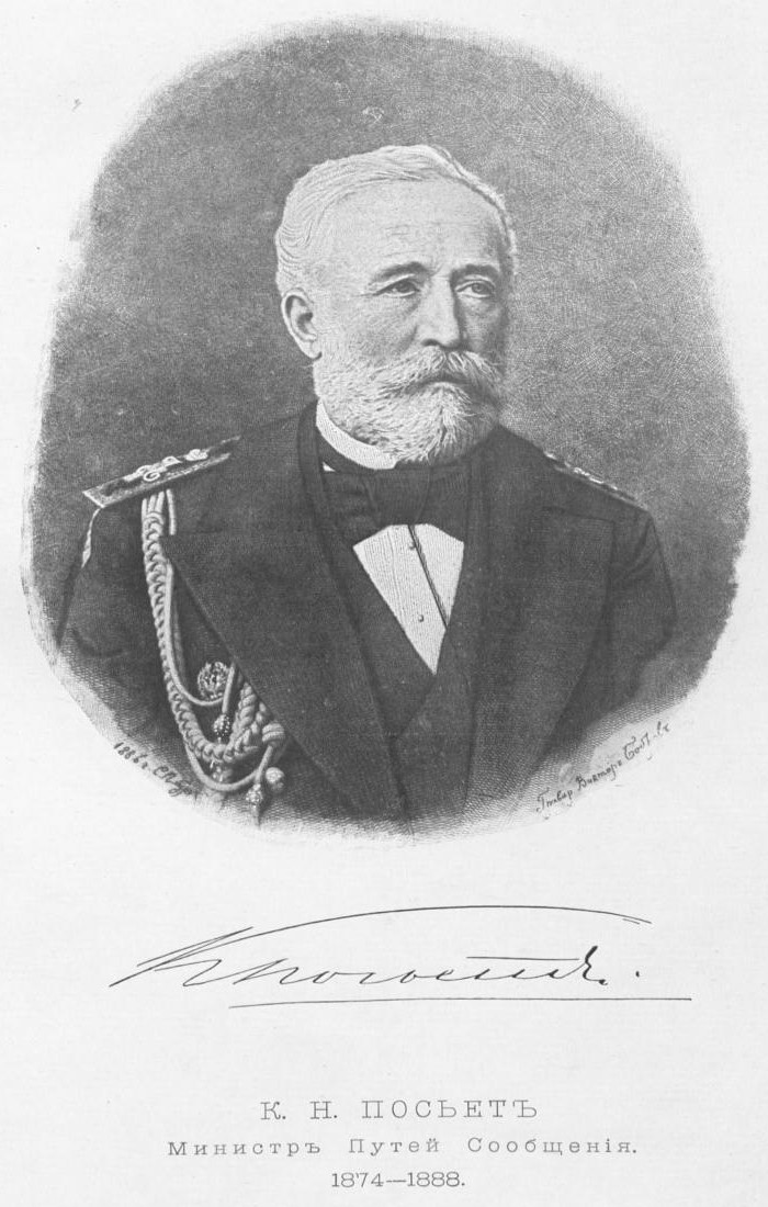 Konstantin Posyet (1819-1899).